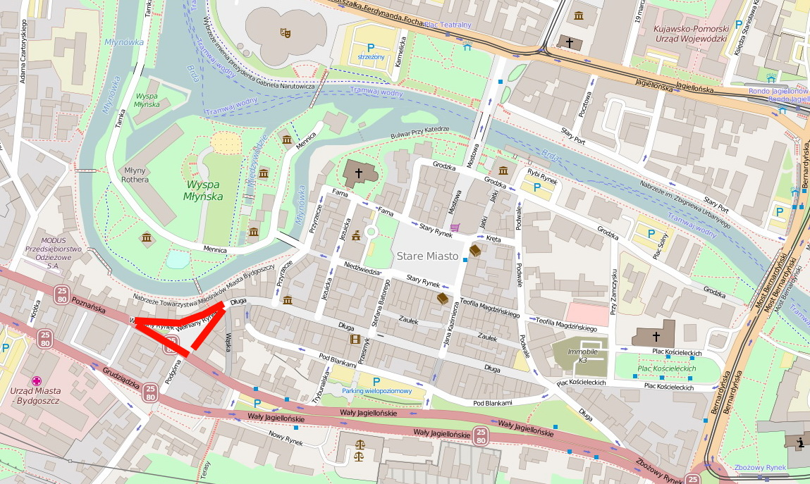 View on a map